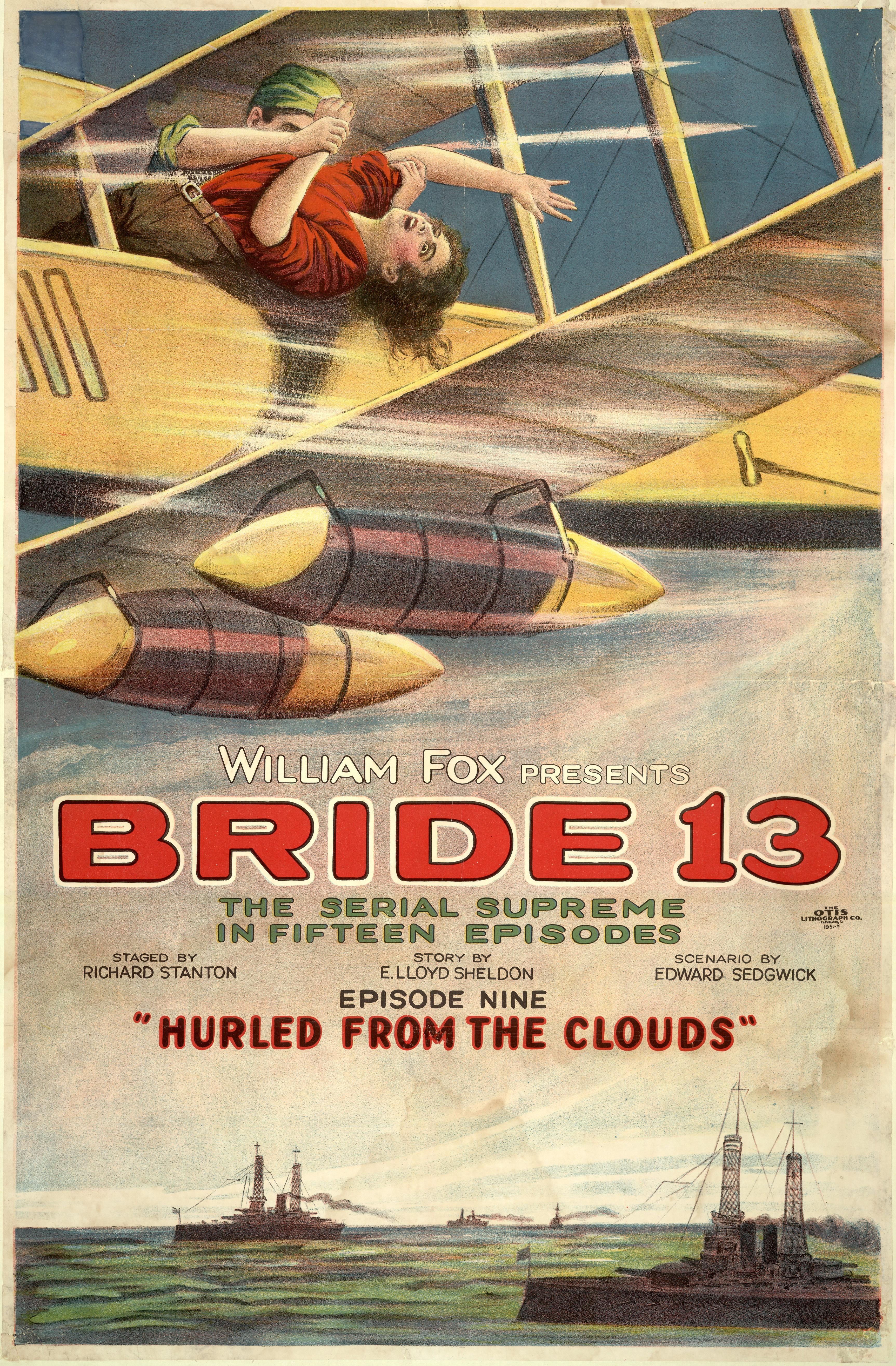 Chromolithograph motion picture poster for Bride 13 (1920), Episode nine, "Hurled from the clouds" directed by Richard Stanton (1876-1956) and produced by William Fox (1879–1952)